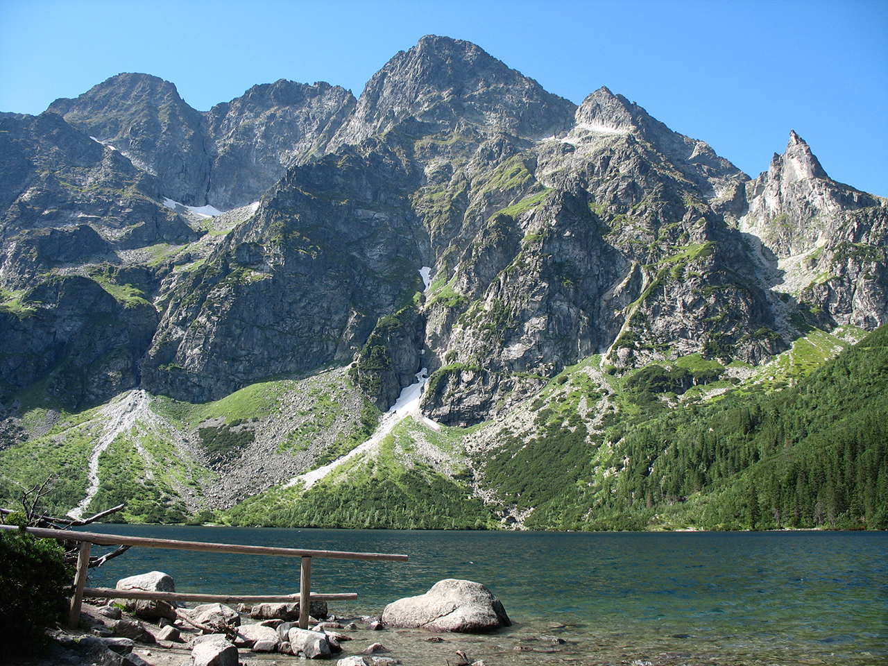 Morskie Oko